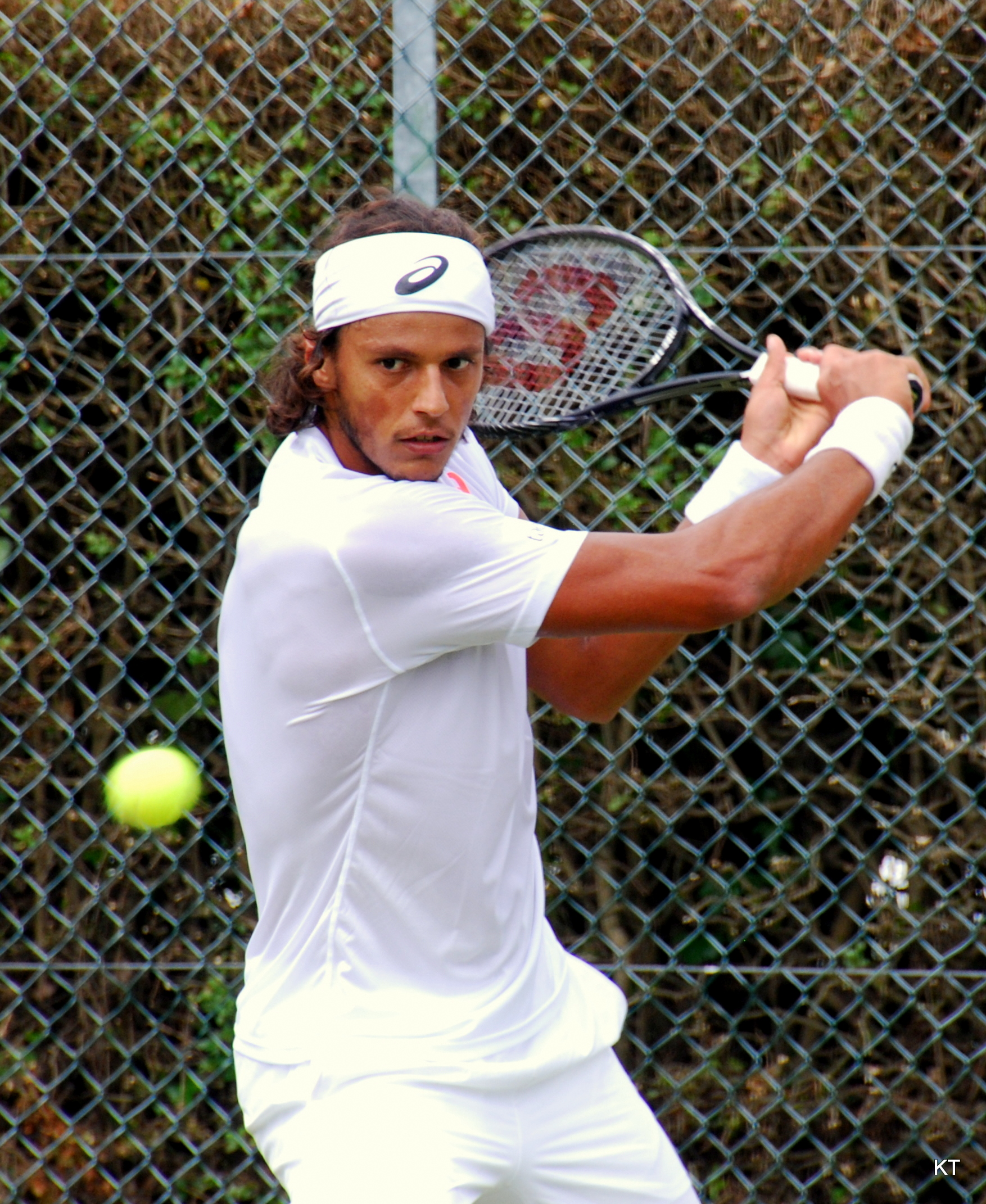 Joao Souza of Brazil - ranked just outside the top 100. Not Joao Sousa of Portugal - ranked in the top 50.